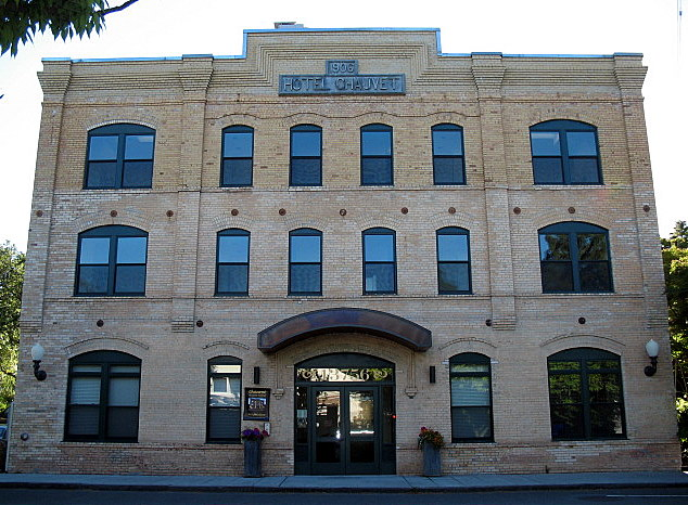 National Register of Historic Places listings in Sonoma County, California. Hotel Chauvet, 13756 Arnold Dr., Glen Ellen, California. Photographed from the east side of Arnold Dr. near the intersection with London Ranch Rd.